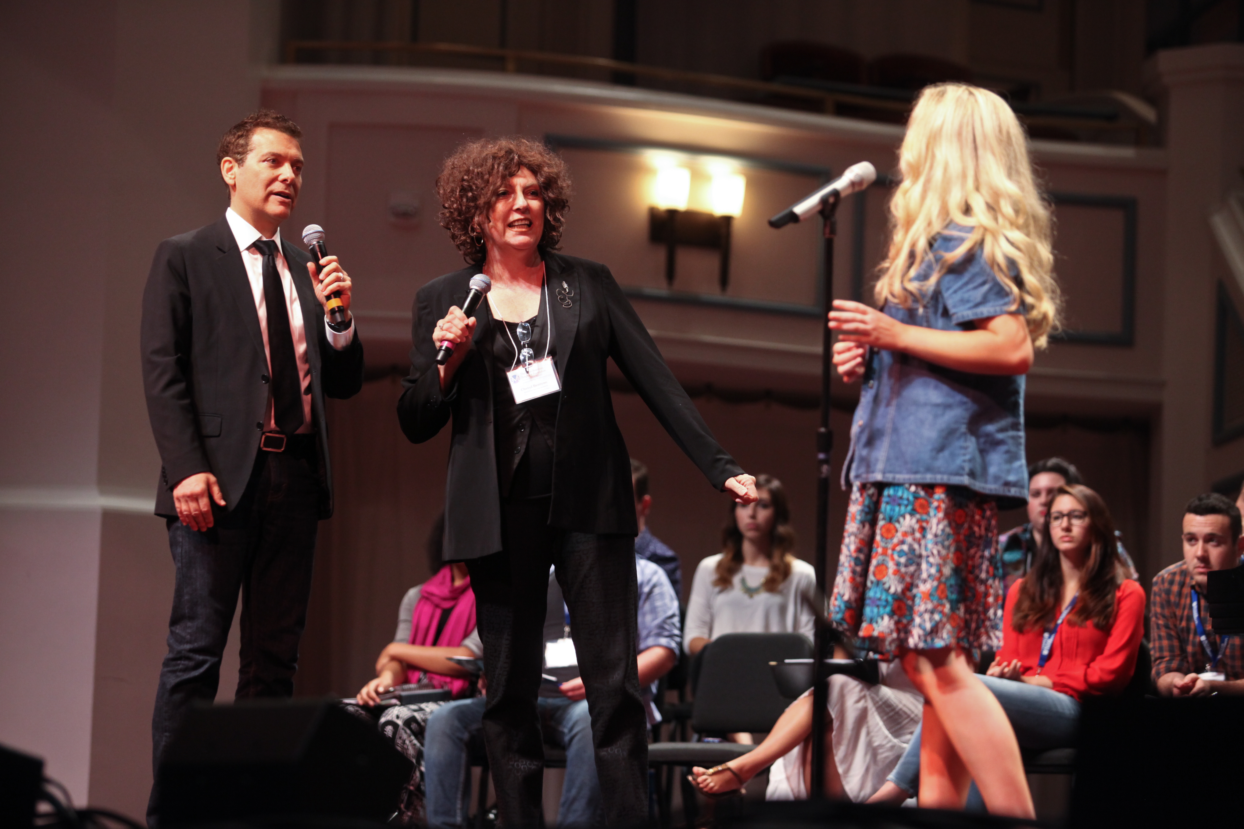 Songbook Academy founder Michael Feinstein and Grammy winner Cheryl Bentyne of The Manhattan Transfer coaching students during a public masterclass at the 2014 Songbook Academy.